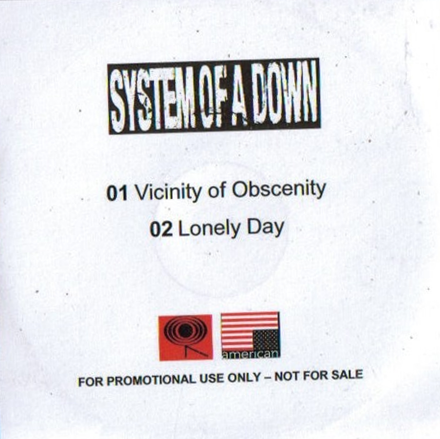 This is the cover art for the single Vicinity of Obscenity by the artist System of a Down. The cover art copyright is believed to belong to the label, Columbia Records, or the graphic artist. System of a Down's Vicinity of Obscenity promo single album cover.